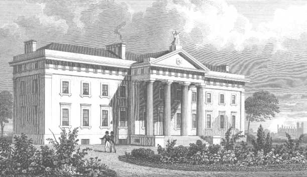 The New Caledonian Asylum To the Fancy-Gifted Sir Walter Scott, Bart. this Plate is Respectively Dedicated. Drawn by Tho. H. Shepherd Engraved by T. Barber Published Nov. 22, 1828, Jones & Co. Temple of the Muses, Finsbury Square, London.